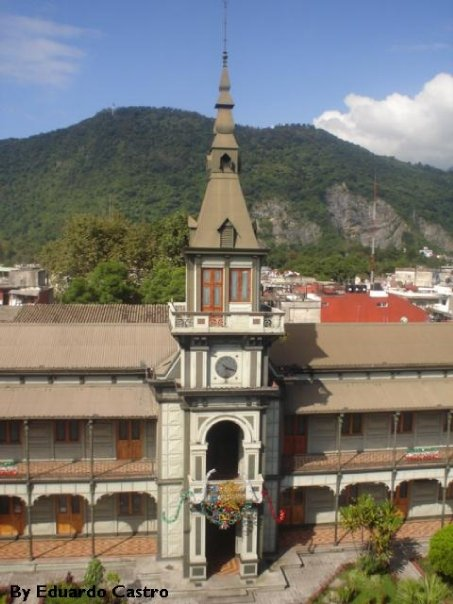 palacio de hierro en Orizaba, Veracruz, México.